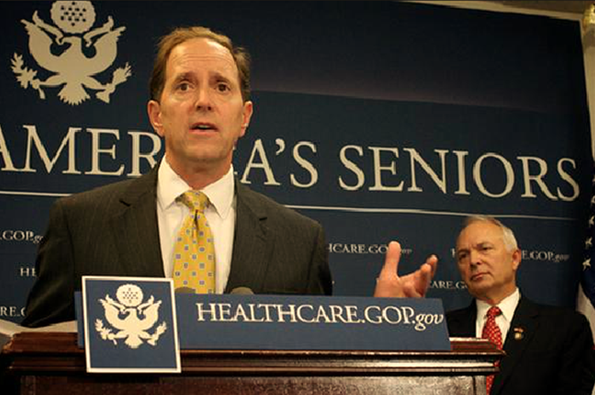 Republican Michigan Representative and Chairman of the House Ways and Means Committee Dave Camp (left), with at a press conference.